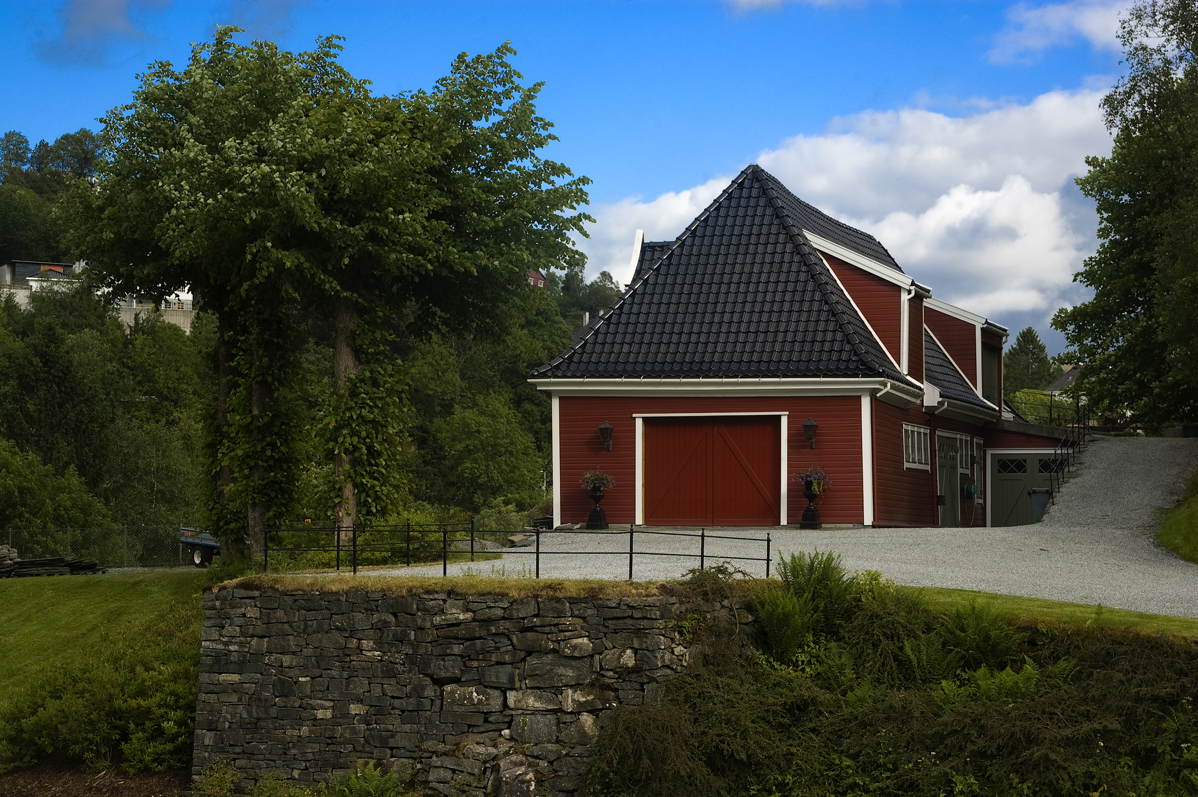 The stable at Gamlehaugen, Bergen, Norway.